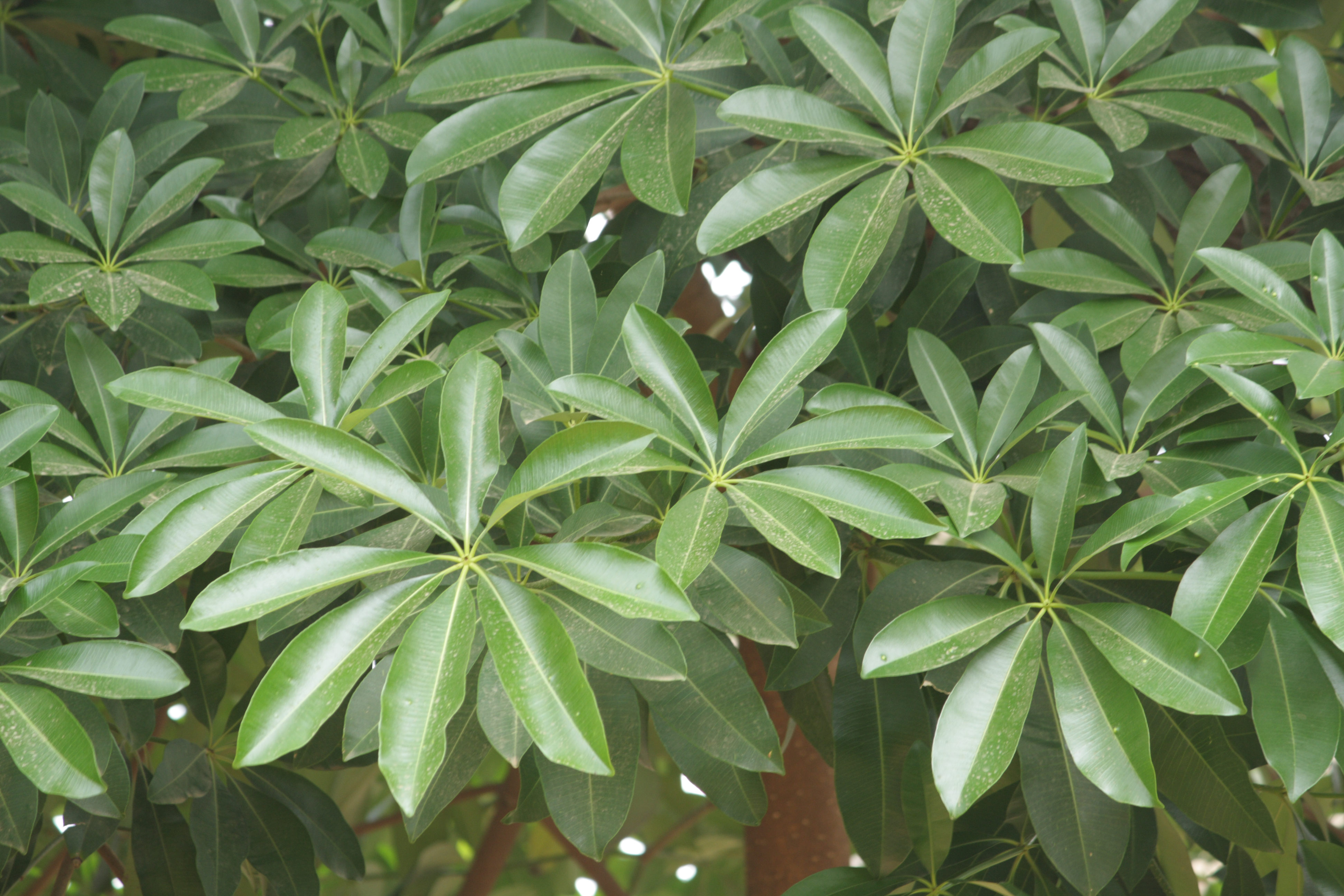 Indian Devil Tree leaves